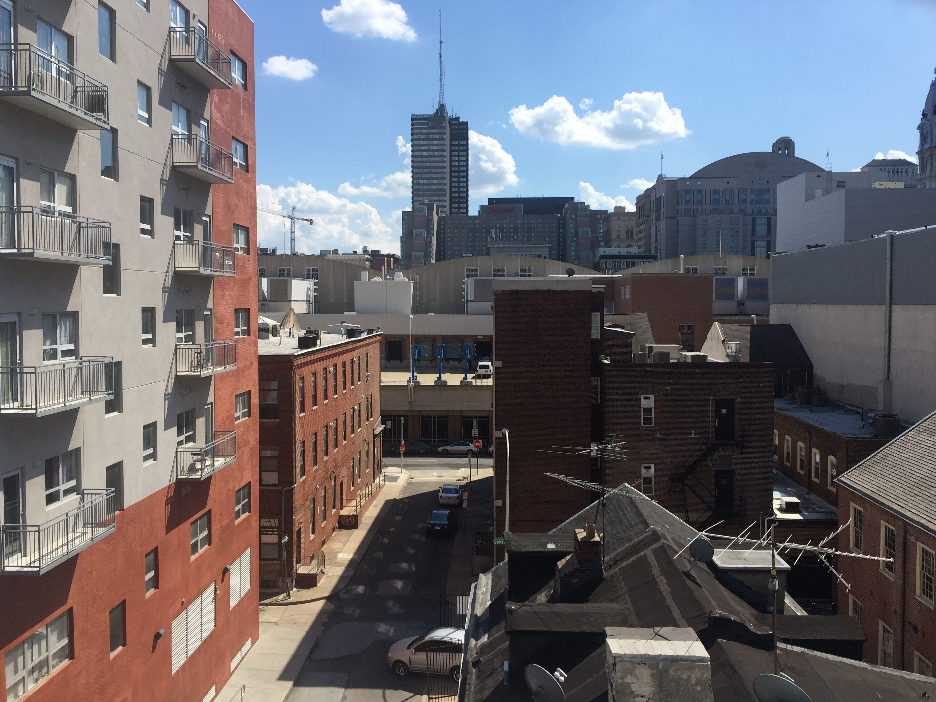 Back side if park convention center